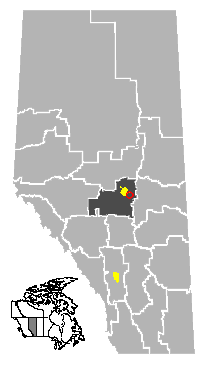 Location of Sherwood Park, Alberta